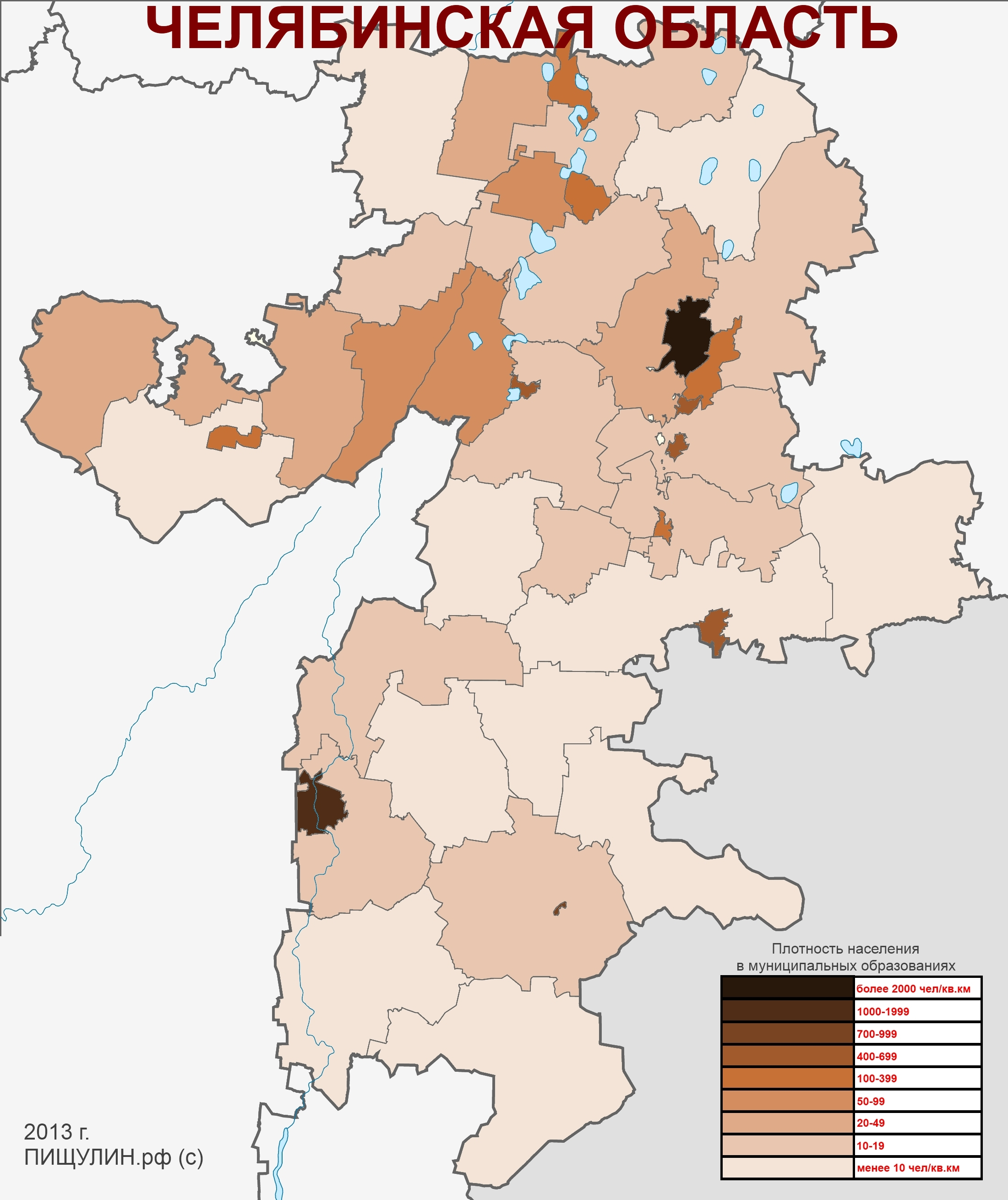 The population density in the Chelyabinsk region (Плотность населения в Челябинской области)